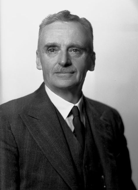 Photo of Thomas Otto Bishop in 1943.